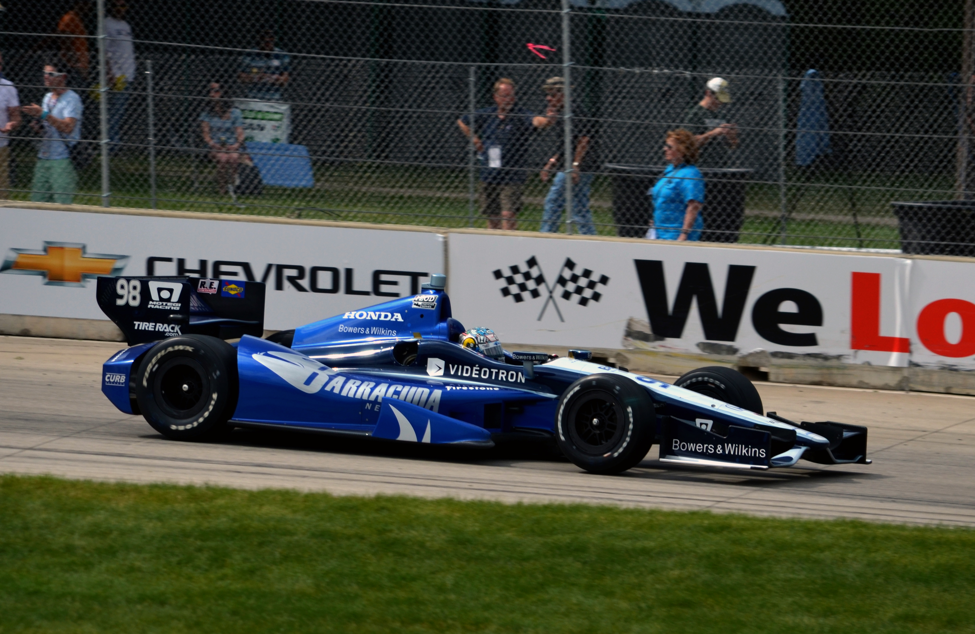 Alex Tagliani